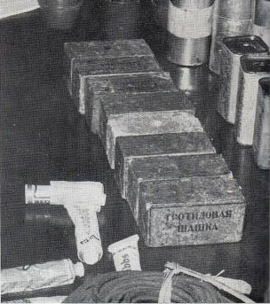 Soviet explosives seized by the Congolese army following the recapture of Bolobo from Simba rebels